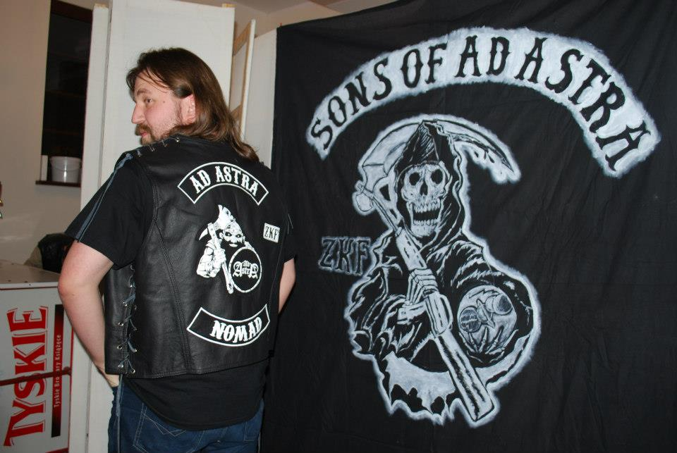 Jakub Ćwiek as member of SF club "ZKF Ad Astra"